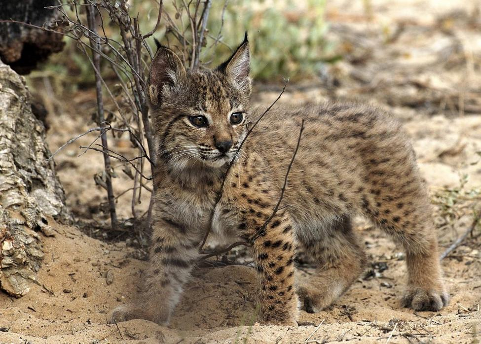 Iberian Lynx cub who born in the Program Ex-situ Conservation in 2005